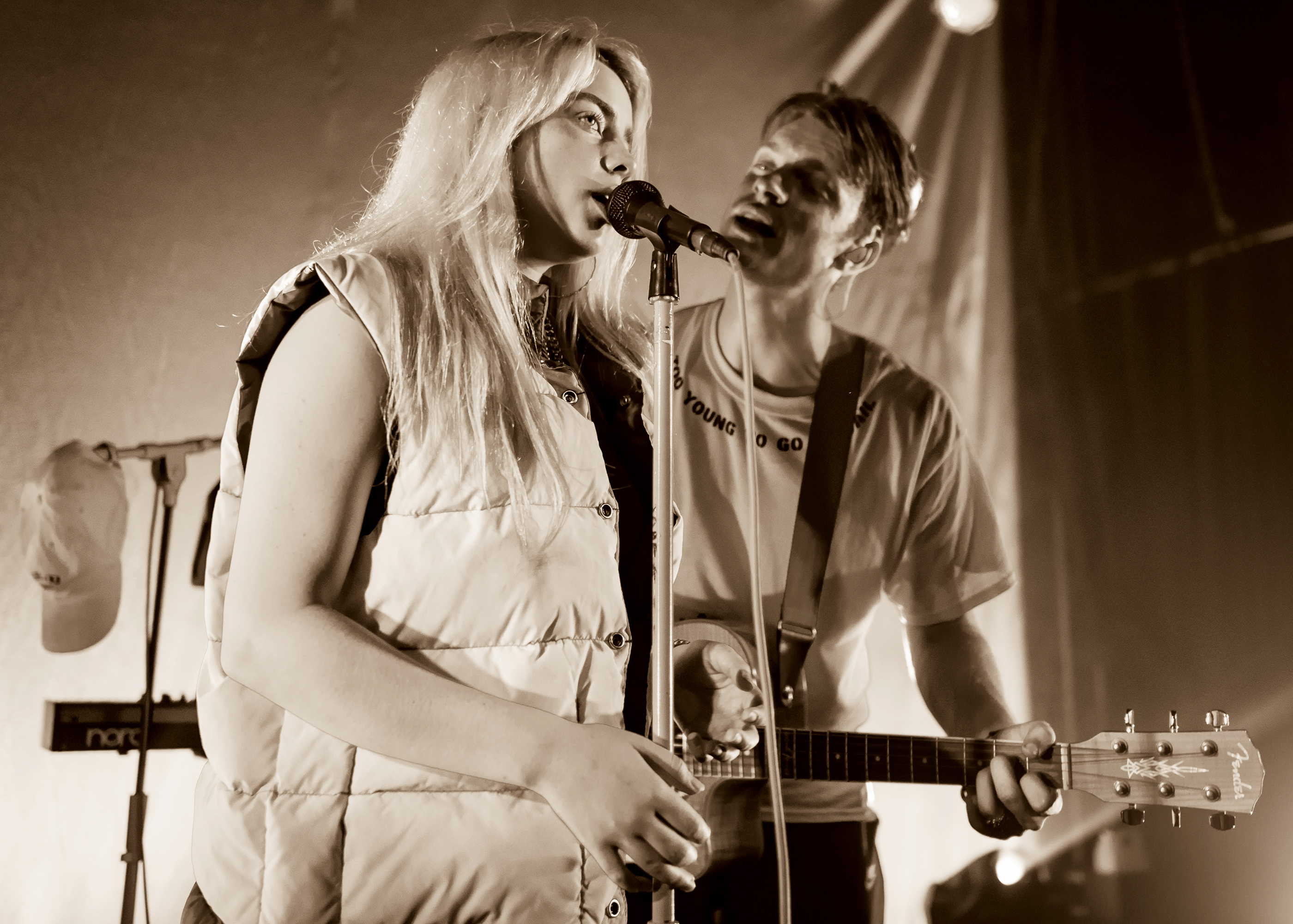 Billie Eilish performing live at The Hi Hat in Highland Park, Los Angeles, California, on Thursday, August 10, 2017.